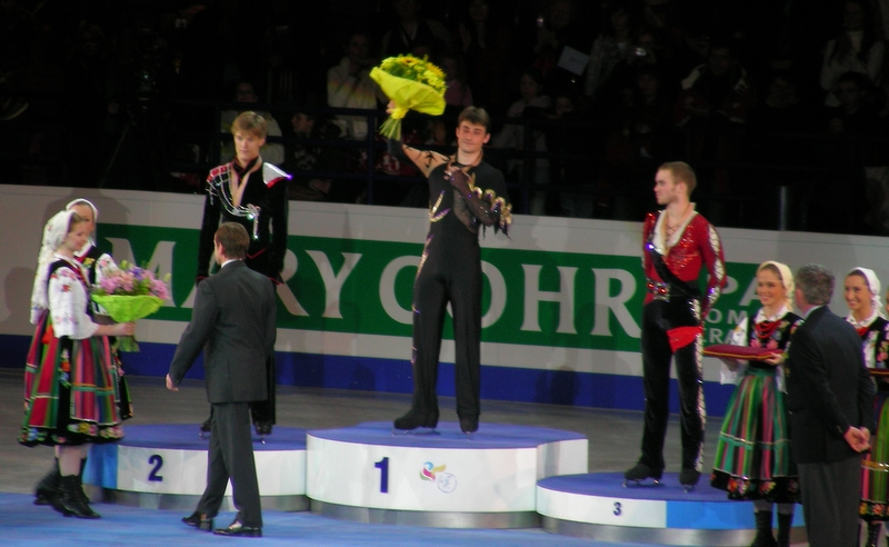 The 2007 European Figure Skating Championships in Warsaw. Men medallists.